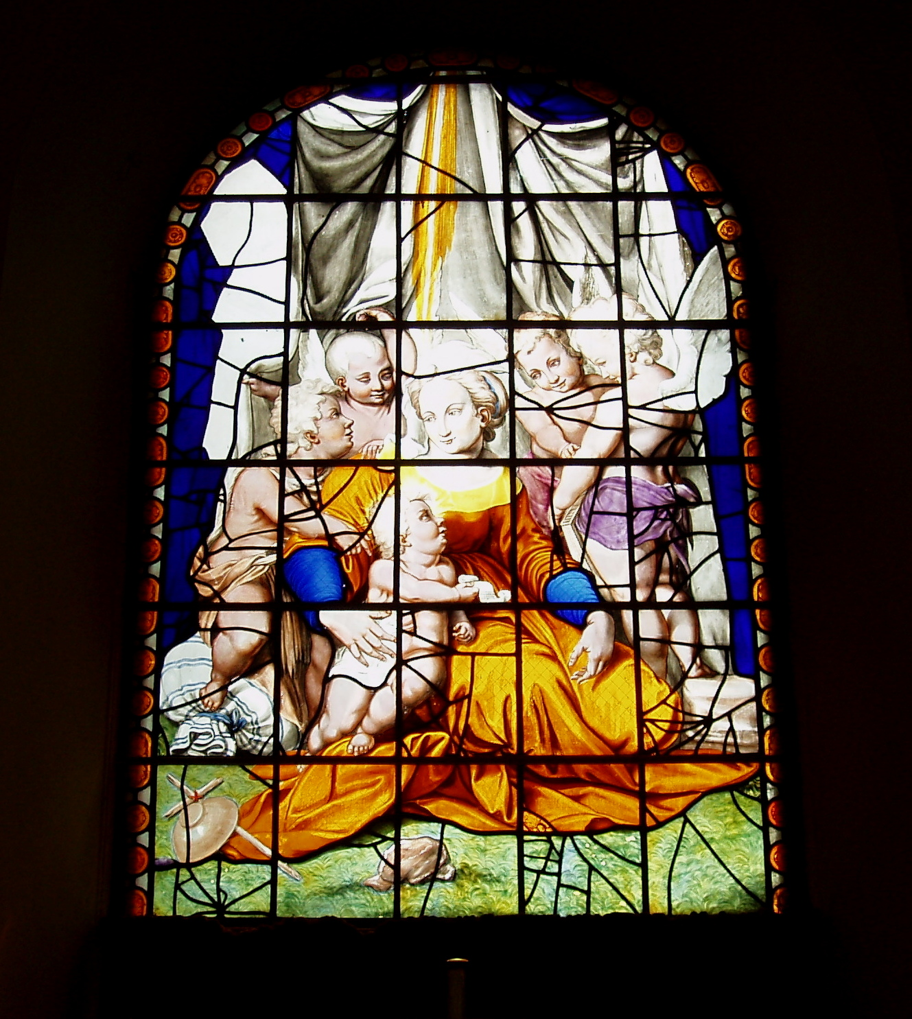 The East Window, 1772, is by William Peckitt. The Virgin and Child with St John and Angels (after Andrea del Sarto's "Corsini Madonna"). The art of glass painting and firing was lost for many years. It was revived in 1752, and William Peckitt of York was a master craftsman. There are examples of his work in York Minster and Lincoln and Exeter Cathedrals.